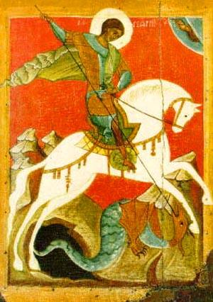 Saint George and the Dragon. Early 15th-century icon of Novgorod school. "The icon is one of those early purely Novgorod works in which the Novgorod style can be seen evolving in distinction to the traditions of fresco painting."